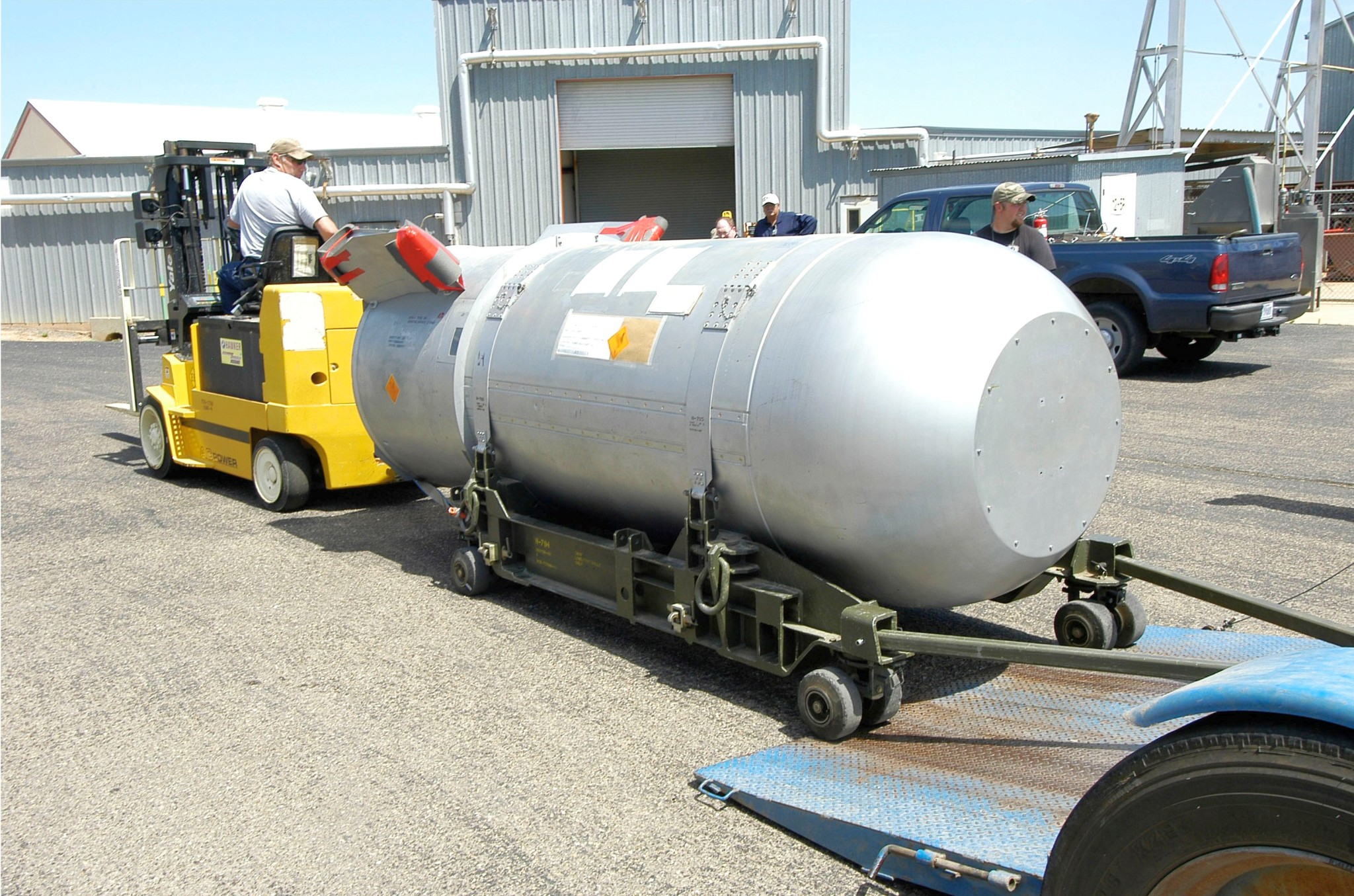 a B53 nuclear weapon at the Pantex Plant in Amarillo, Texas is prepared for dismantling